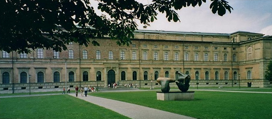 Alte Pinakothek, Munich, GFDL, Photo: Markus Würfel